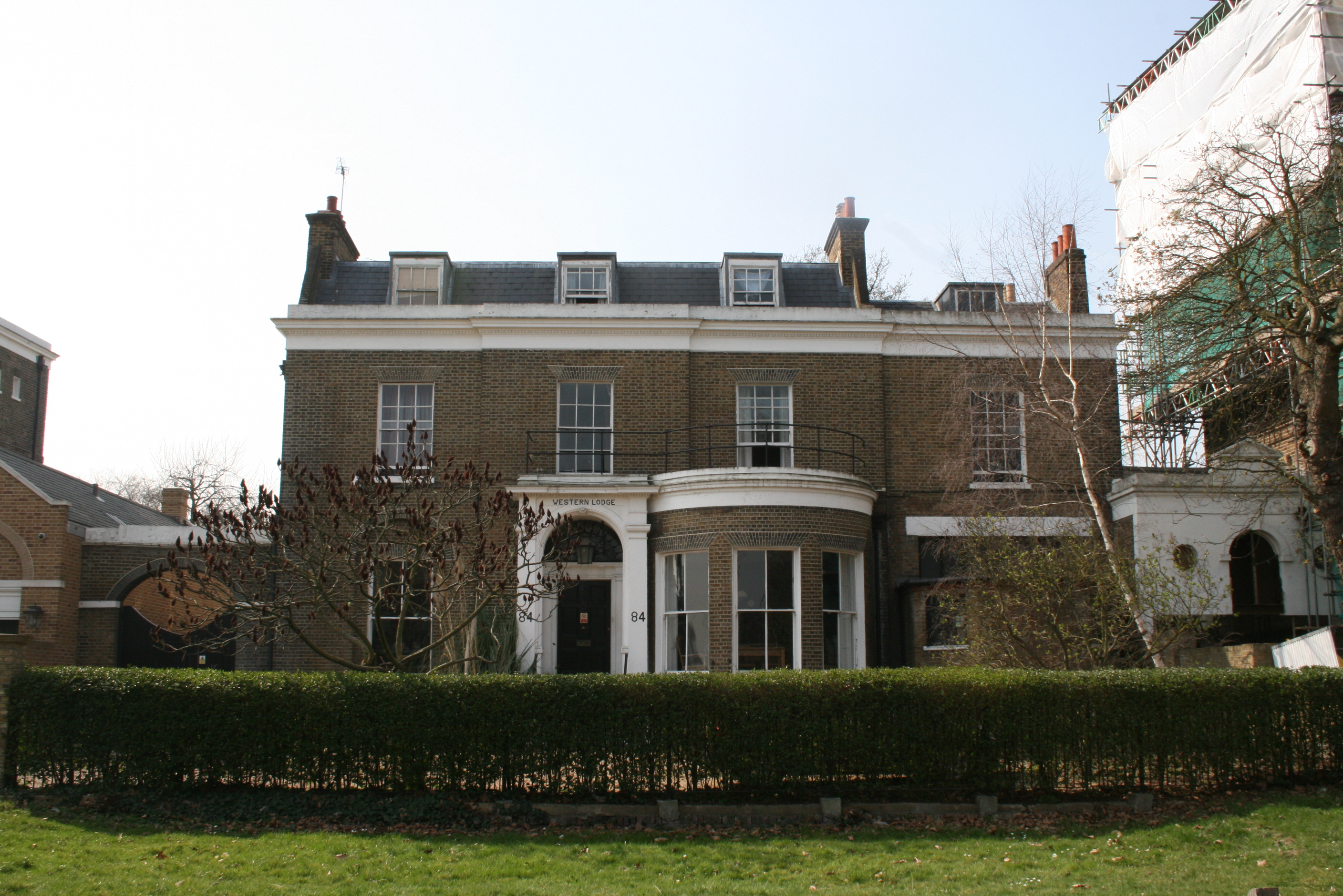 The current property that The Society for the Relief of the Homeless Poor resides in at Clapham Common West Side.